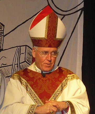 Most Reverend Richard J. Malone